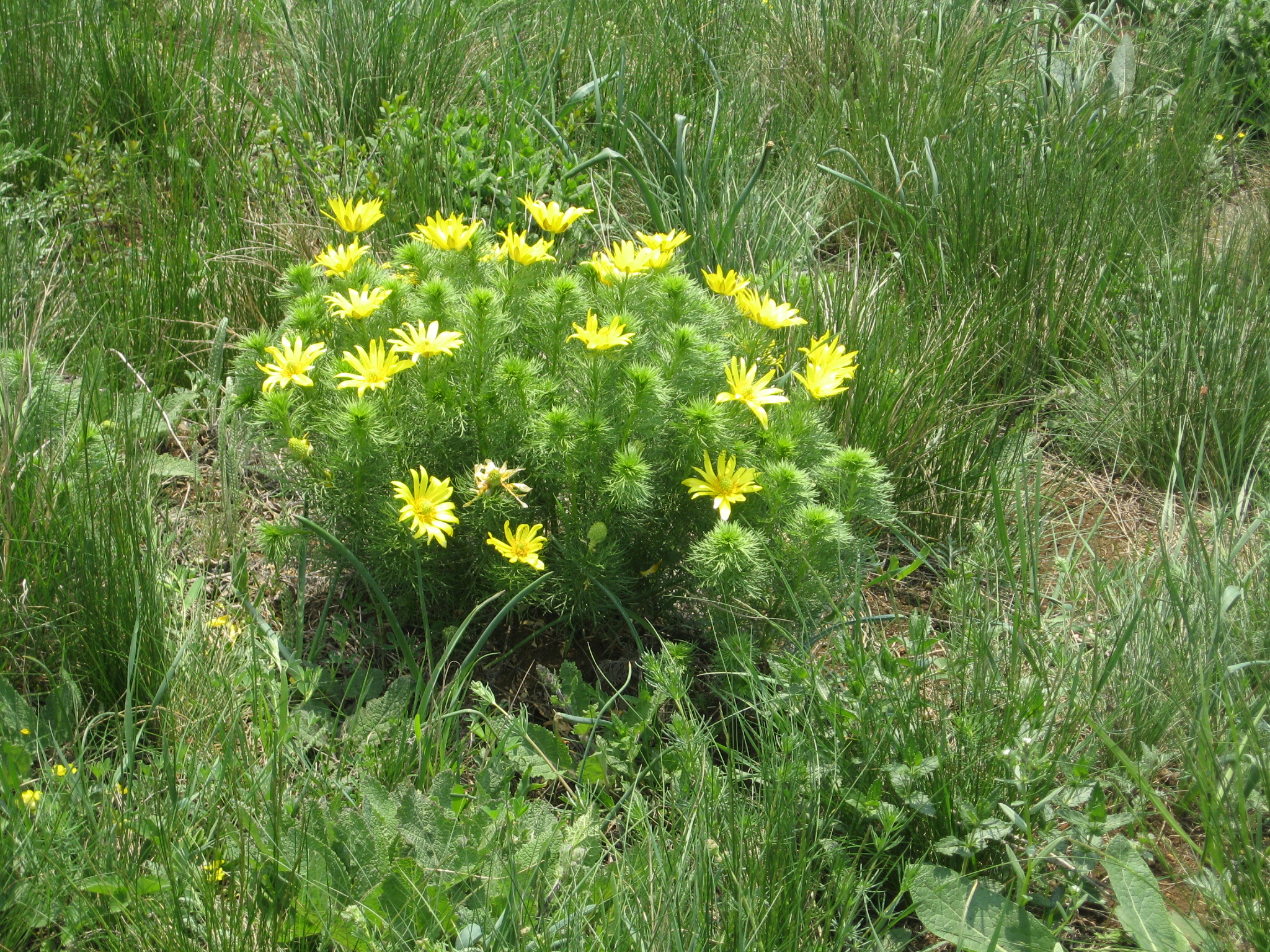 Adonis vernalis on the Hill Milá (Czech Republic)